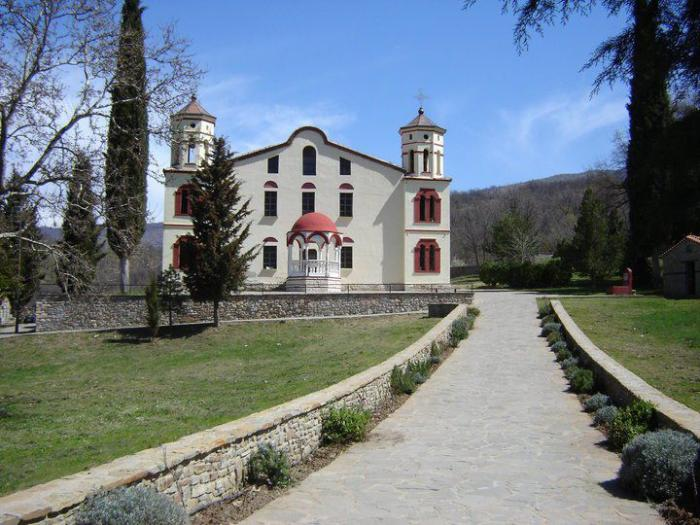 Saint George church (1897), Korisos